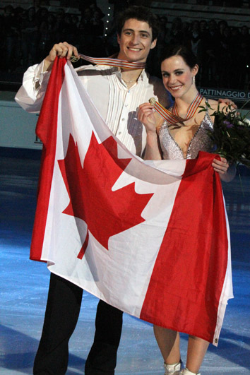 2010 World Figure Skating Championships - Tessa Virtue and Scott Moir